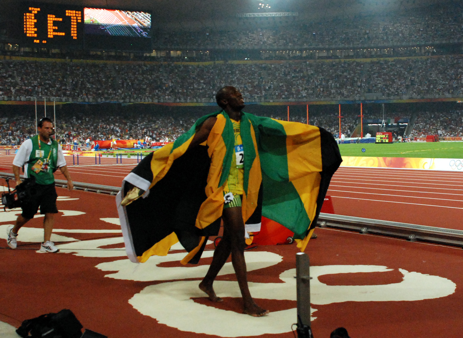 Usain Bolt after his victory in the 200 meters at the bird's nest august 20th 2008